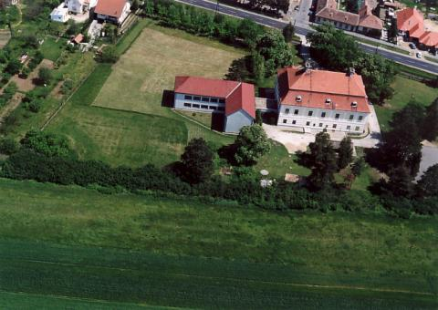 Rábapaty Hungary aerialphotography